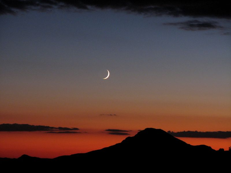 I just love the crescent moon setting.